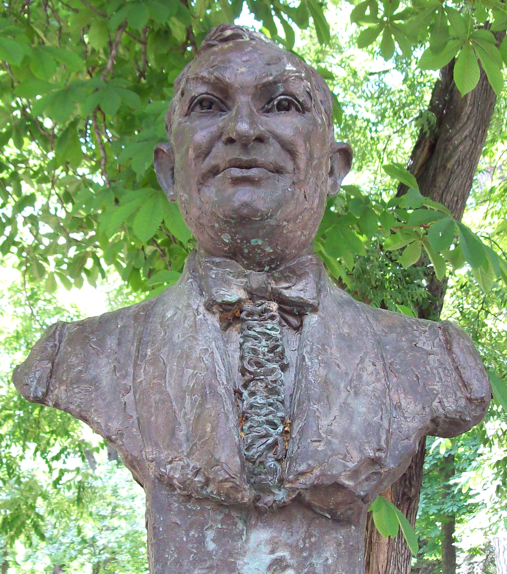 Bronze bust of Pedro Vargas Mata (1906–1989) in the Retiro Park (Jardines del Buen Retiro) in Madrid (Spain). Made by sculptor Luis Antonio Sanguino (b. 1934) and unveiled on March 28, 1991.